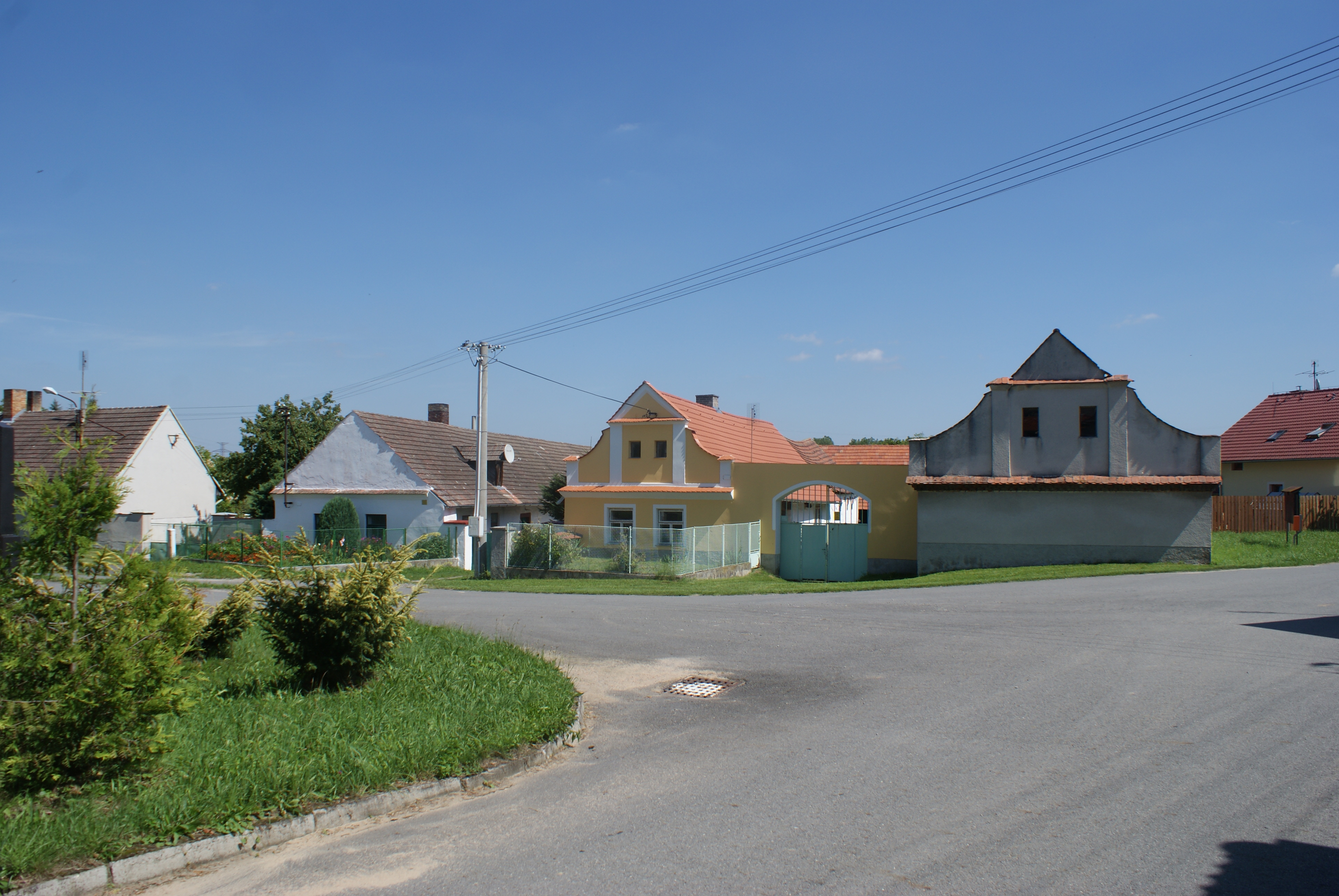 Malčice (Předotice) a village in Písek district, Czech Republic, the village common.